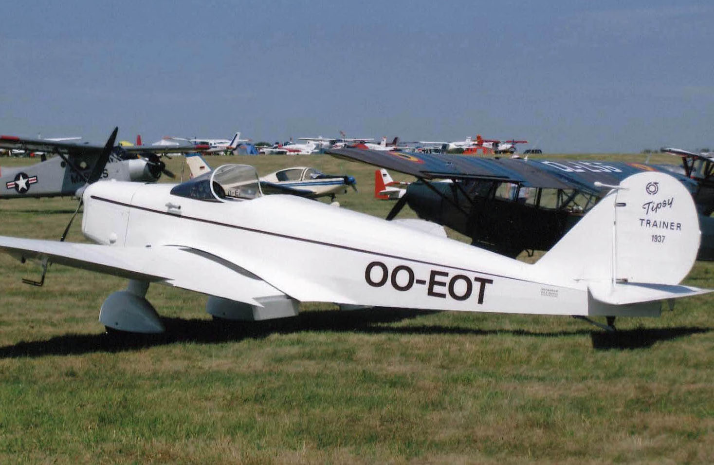 Tipsy Trainer OO-EOT at the Schaffen-Diest (Belgium) rally